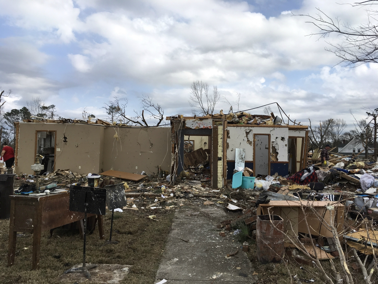 EF3-rated damage to a home just south of Hattiesburg, Mississippi, from a pre-dawn tornado on January 21, 2017.